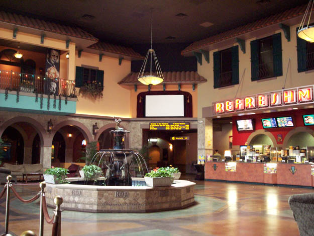 The Paradiso lobby.